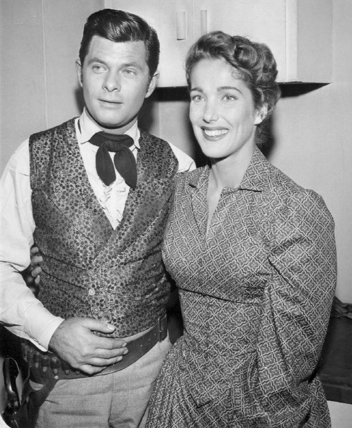 Photo of Dewey Martin and Julie Adams from the television program Frontier Justice.